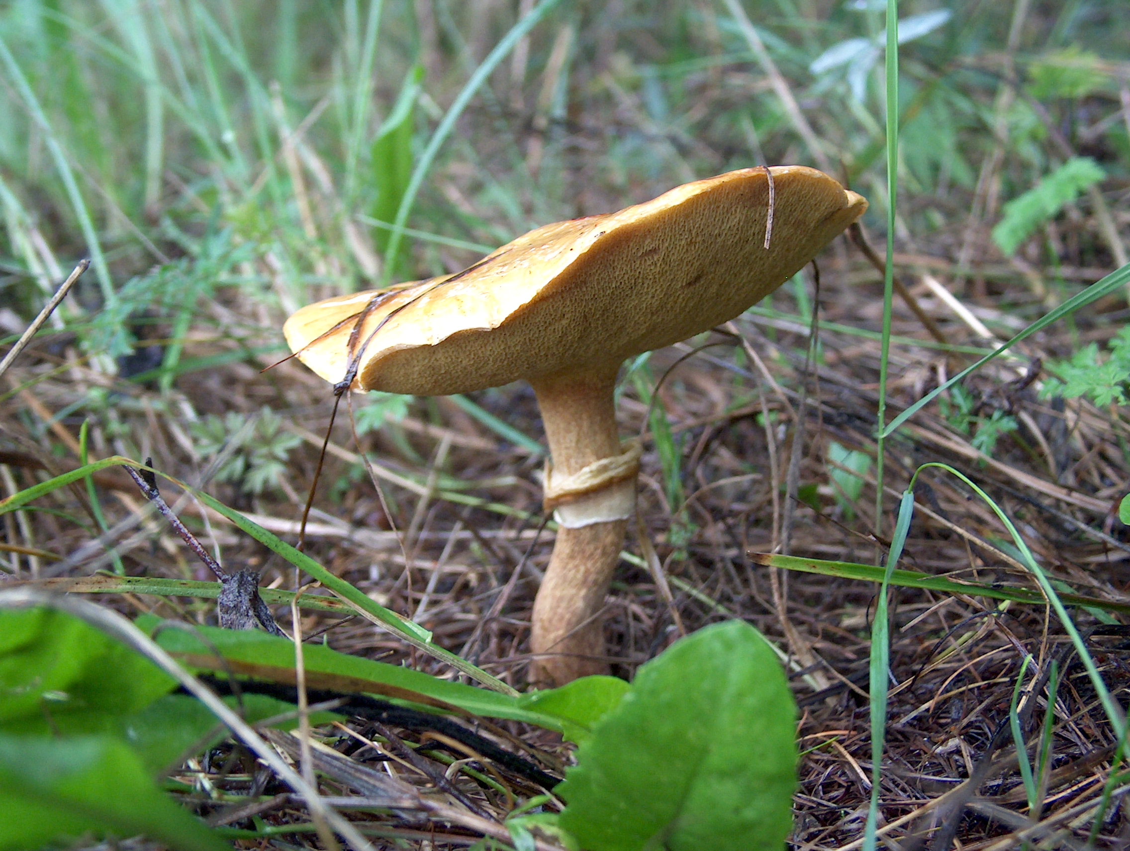 Suillus grevillei, Larch Bolete - Kerava, Finland